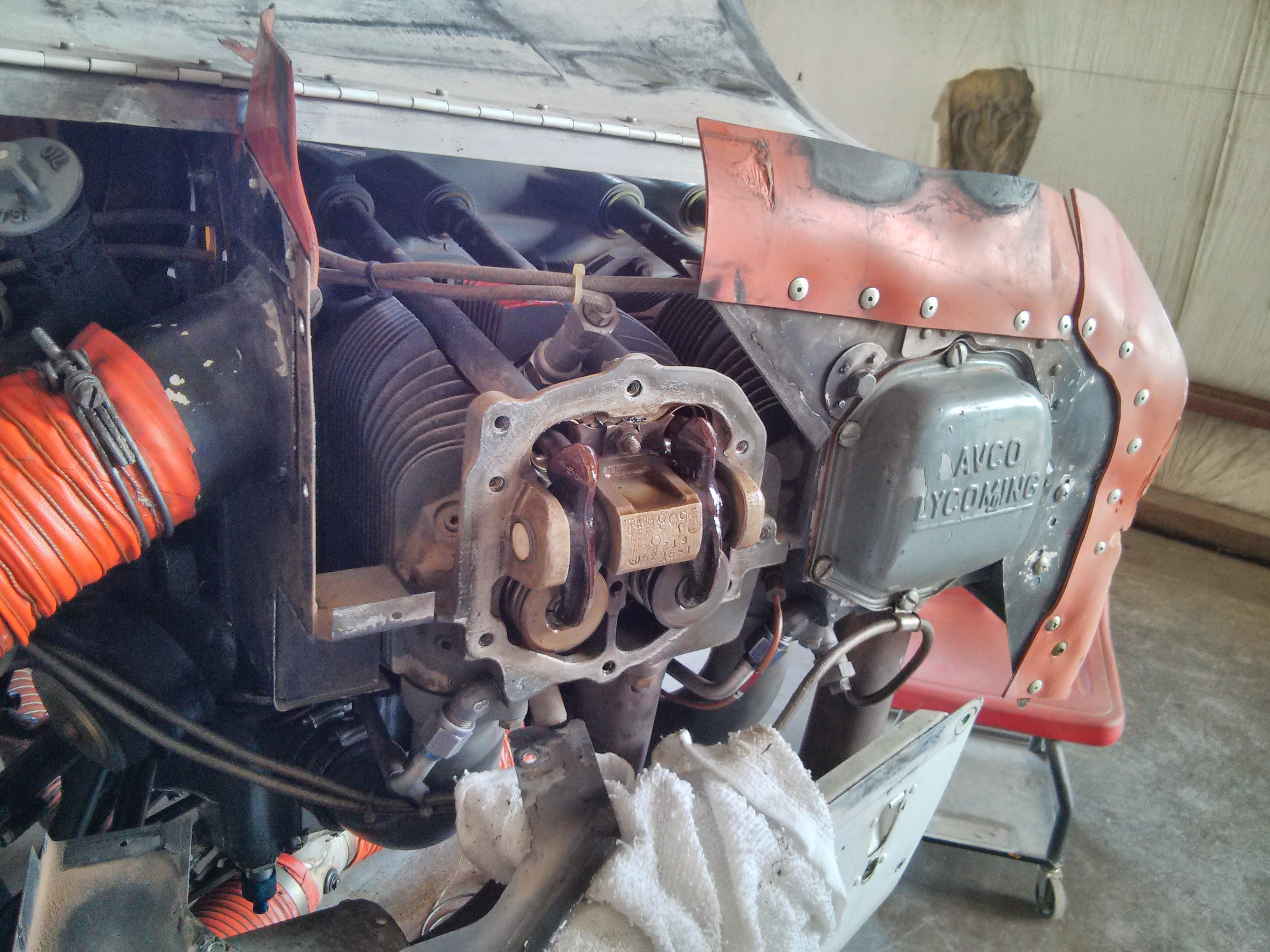 A 4-cylinder Lycoming O-320-E3D aircraft engine, with the rocker box cover of one of the cylinders (of the two visible) removed to expose the rocker arms for inspection. Aircraft pictured is a Piper PA-28 Cherokee 140.